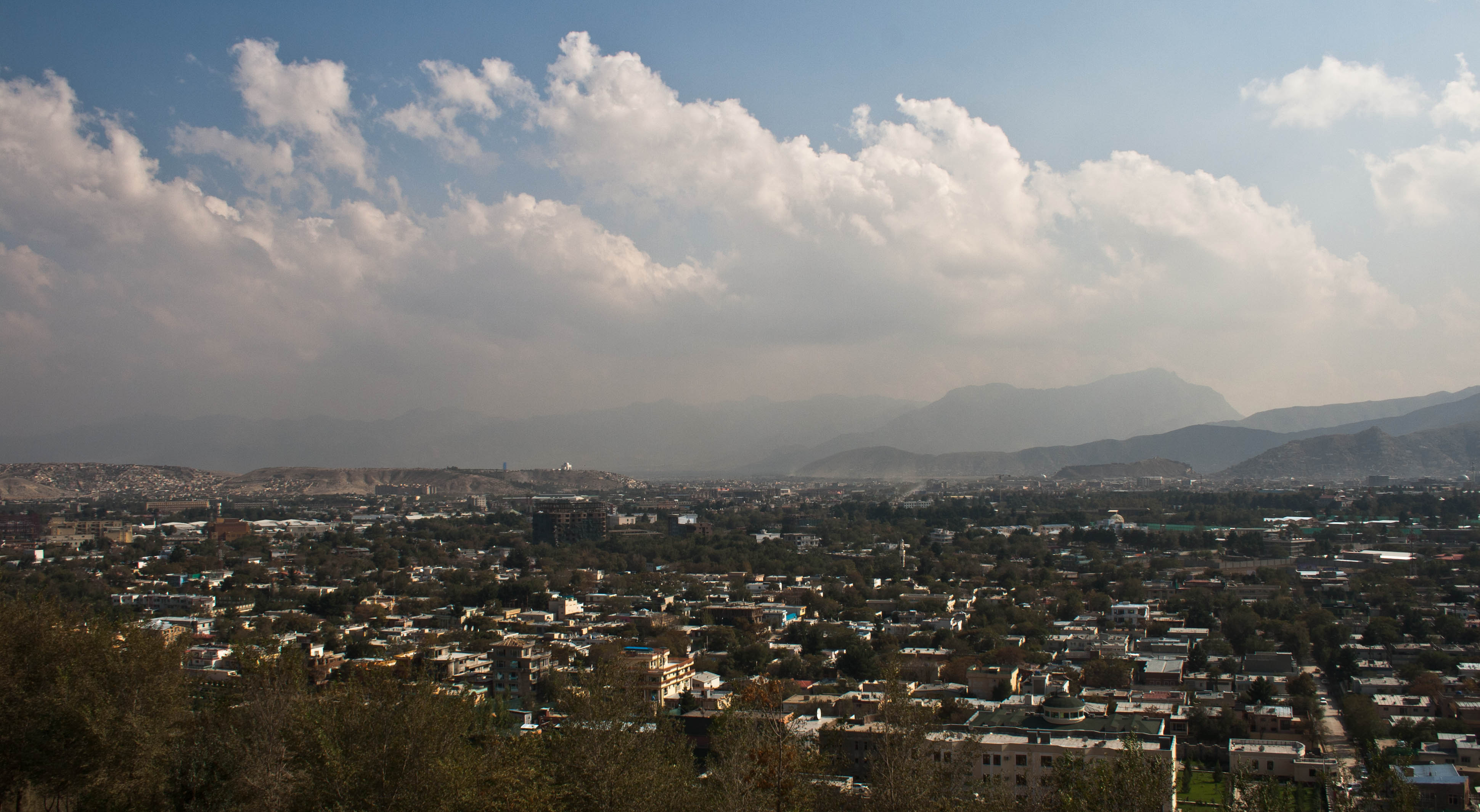 View of a section of Kabul, Afghanistan